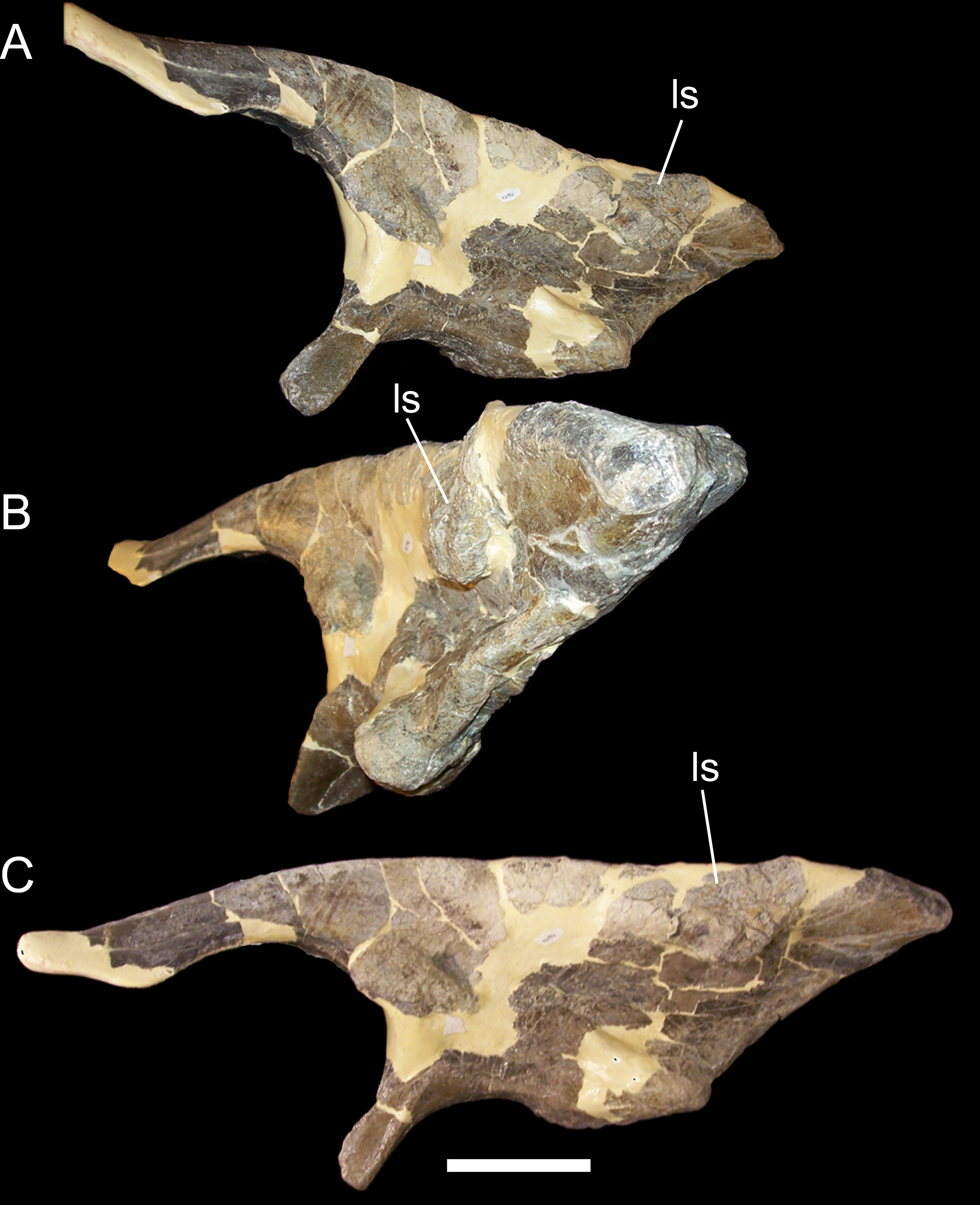 Left ilium of Cedrorestes crichtoni (DMNH 47994, holotype).